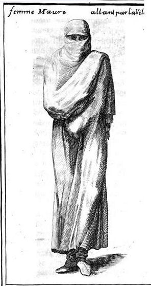 Moroccan woman in Estat_present_de_l'empire_de_Maroc_p88